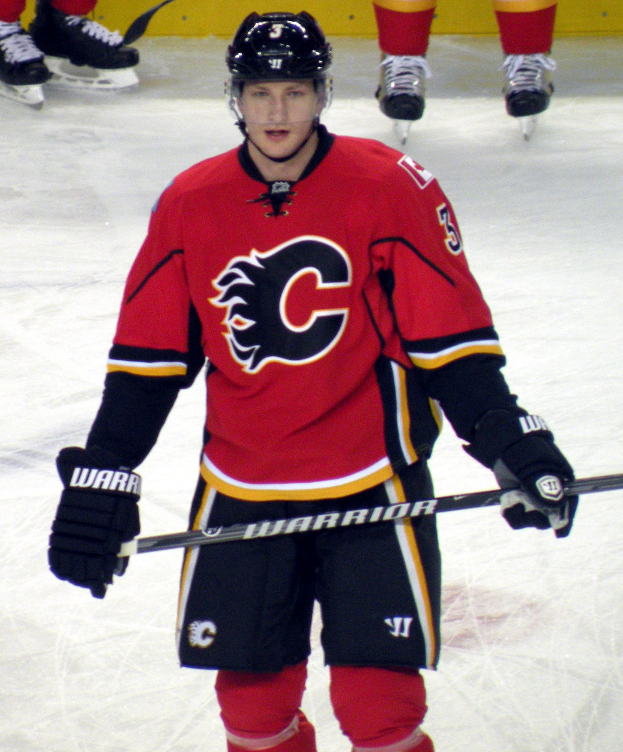 Calgary Flames defenceman Ladislav Šmíd prior to a National Hockey League game in Calgary.